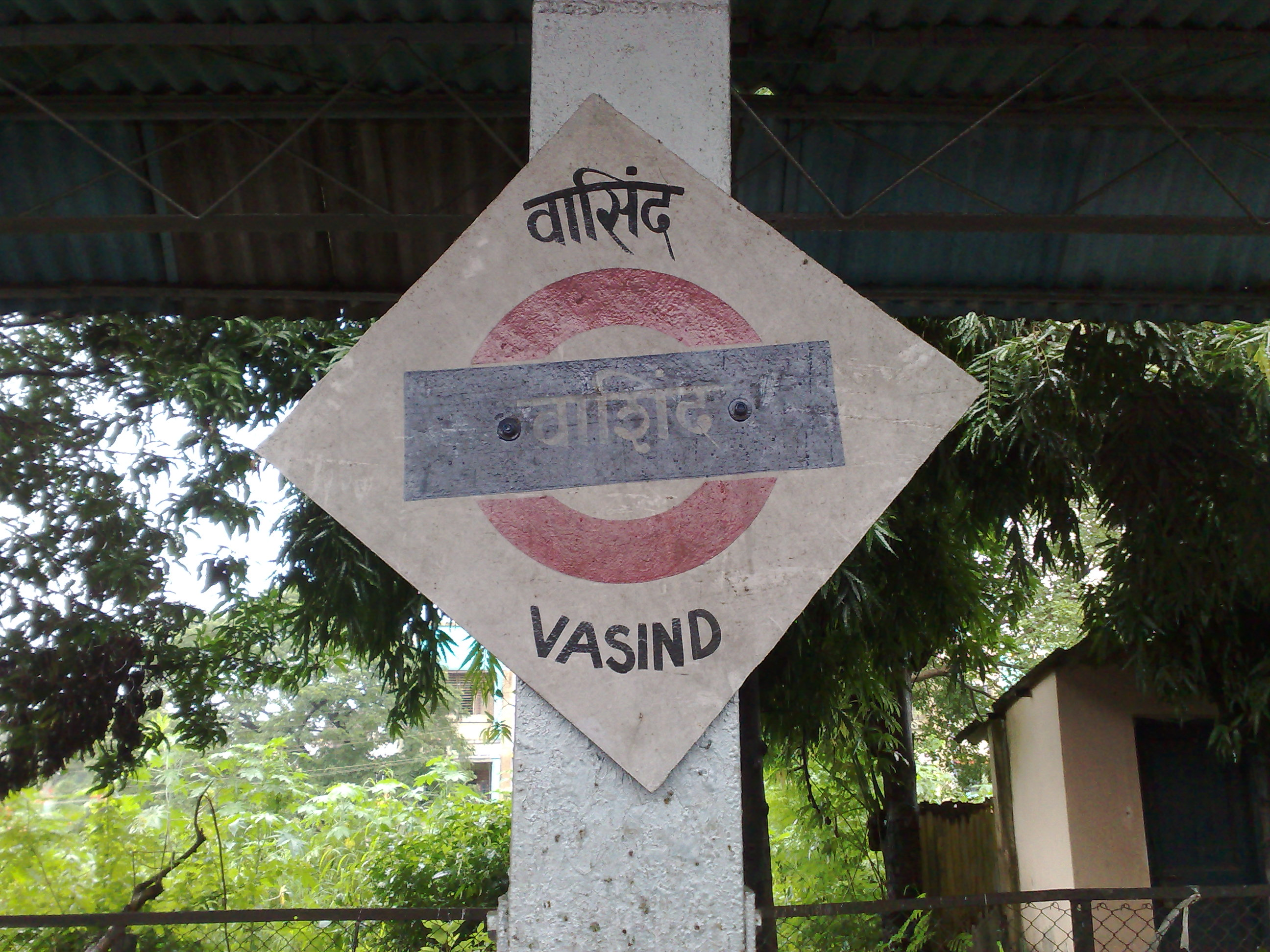 Vasind railway station - Platformboard